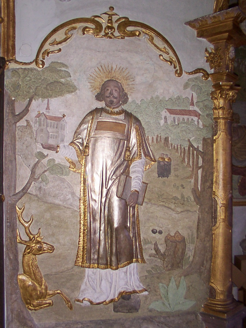 Relief of the saint Meinolf, in the Trinity Chapel of the Paderborn Cathedral